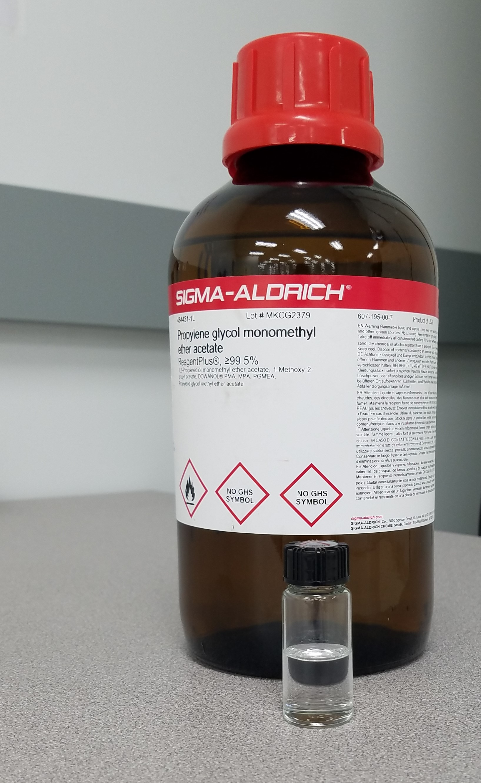 Bottle of polyethylene glycol methyl ether acetate (PGMEA) and a small clear vial of the same liquid in front.